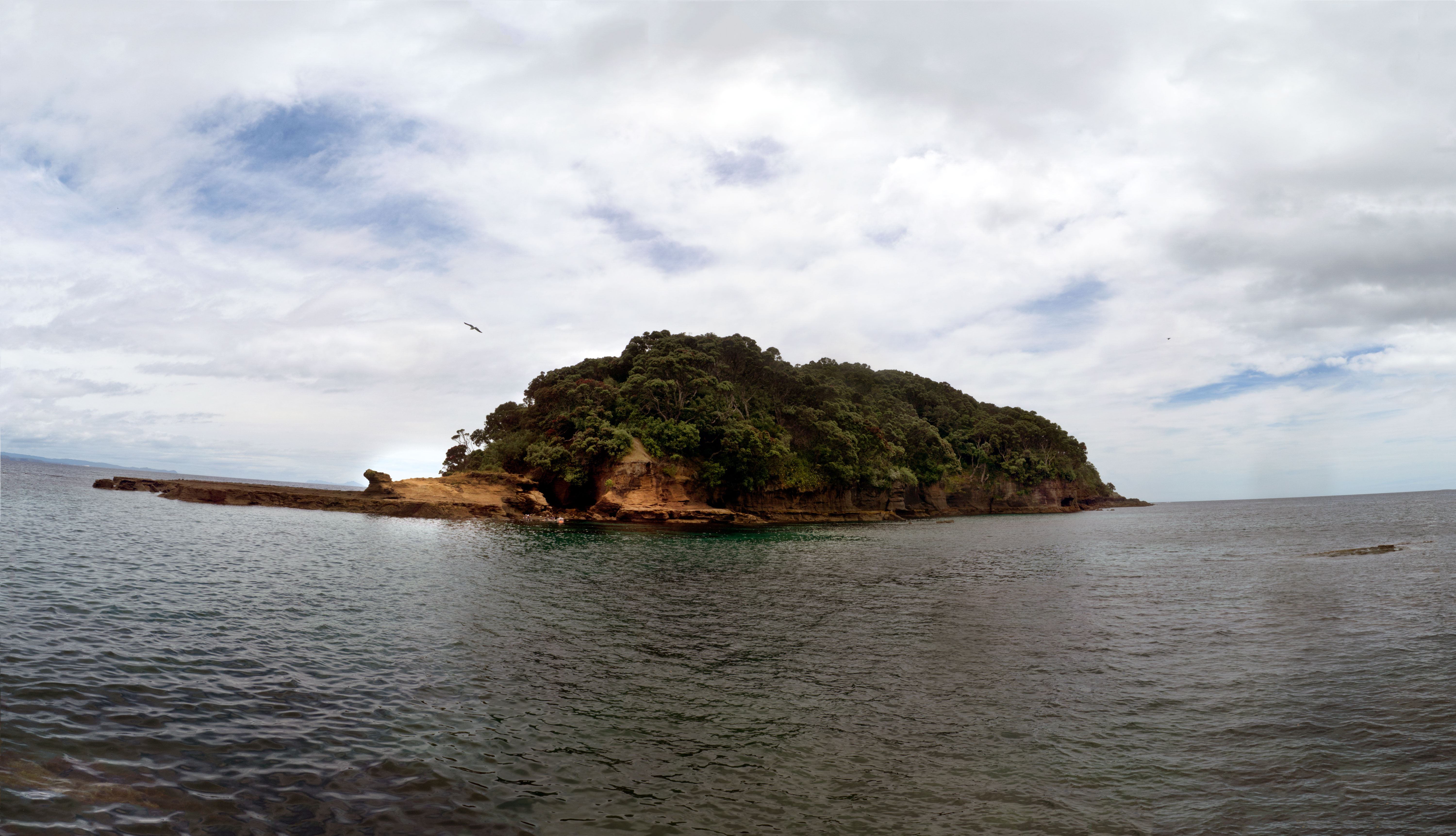 Goat Island in a Hauraki Gulf